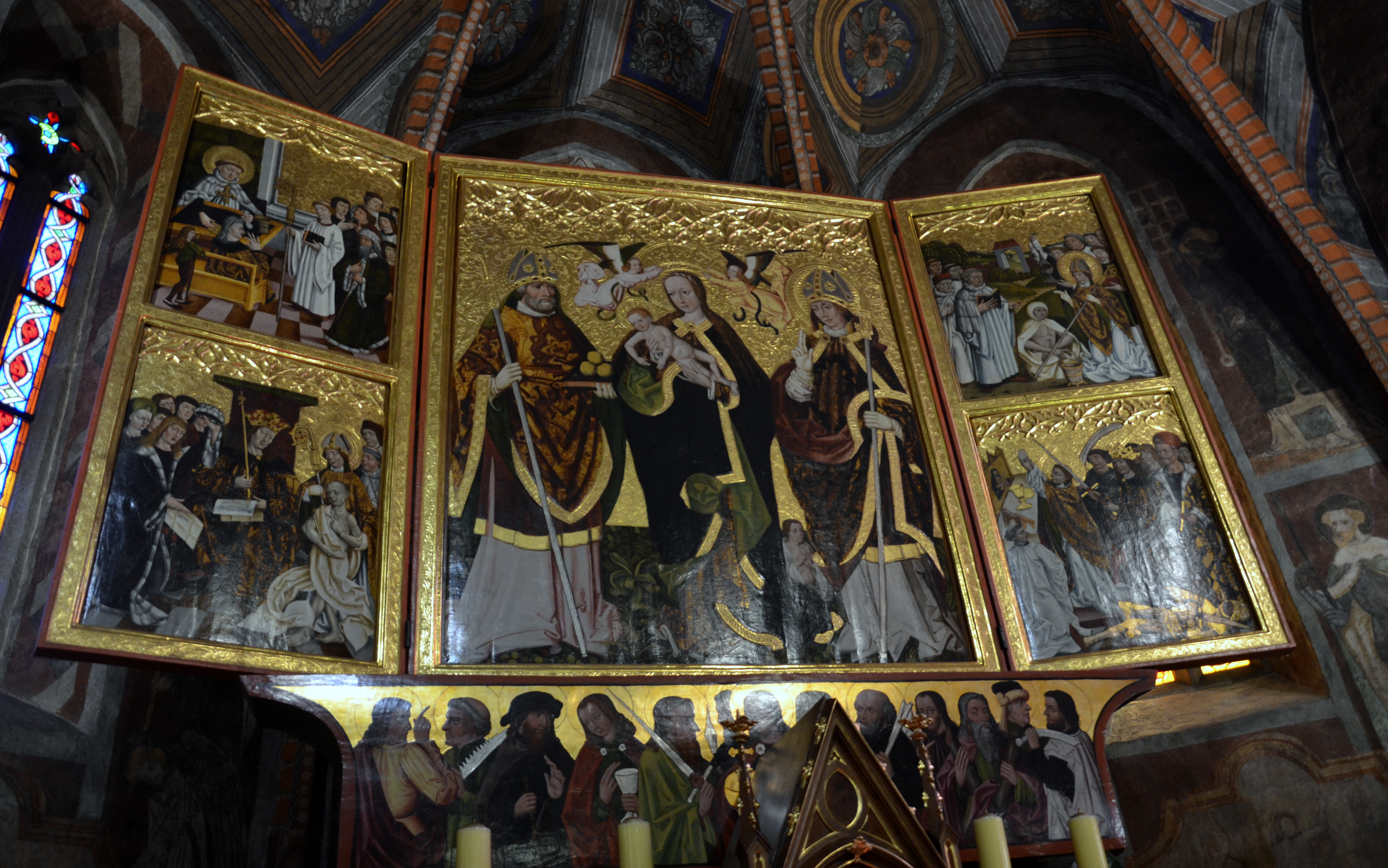 Interior of the St. Stanislaus church in Bielsko-Biała